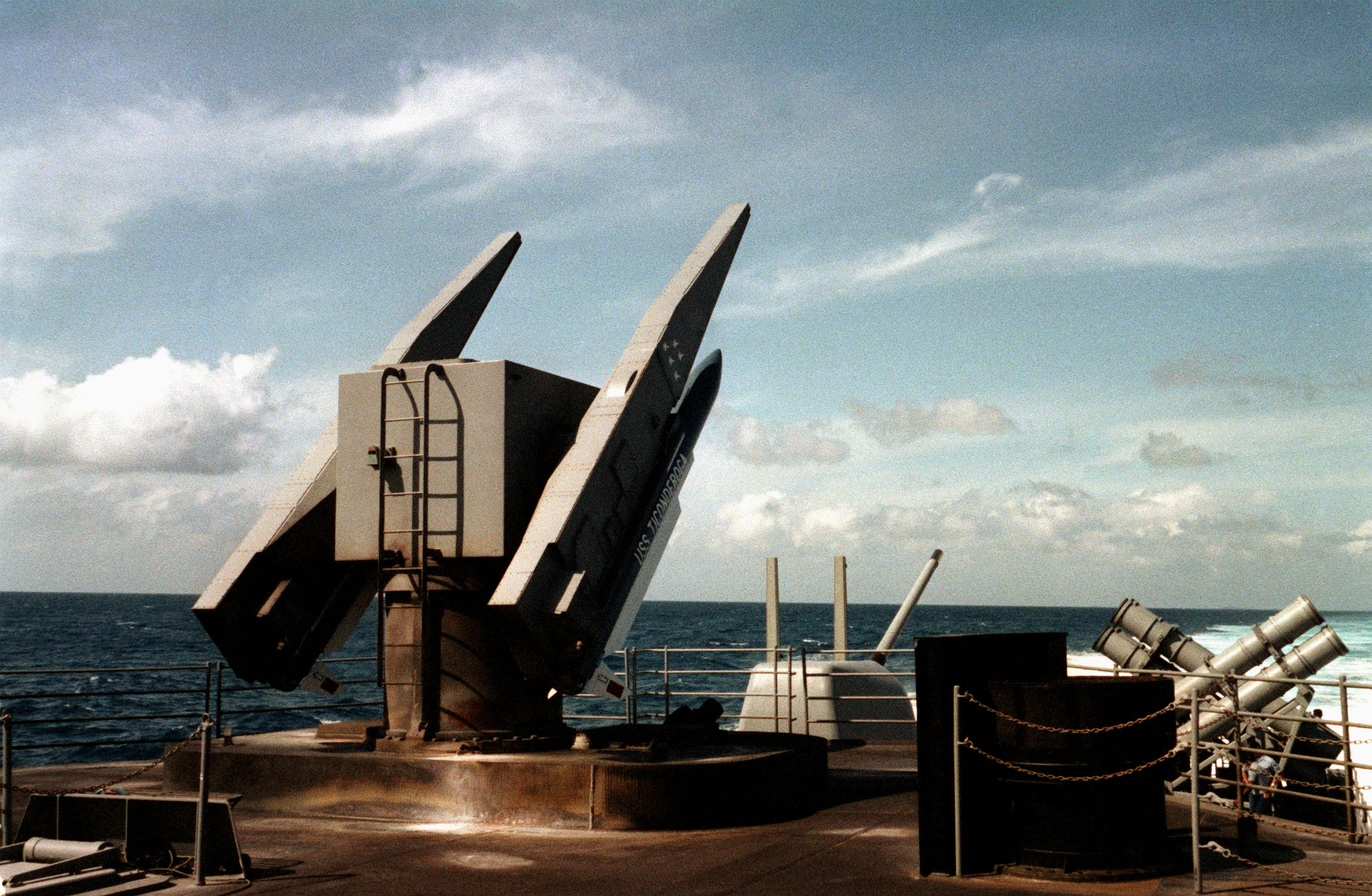 DN-SC-84-10093 RIM-66 Standard MR/SM-2 missiles on a Mk-26 launcher, prior to being fired from the Aegis guided missile cruiser USS TICONDEROGA (CG 47) during tests near the Atlantic Fleet Weapons Training Facility, Roosevelt Roads, Puerto Rico, 04/12/1983